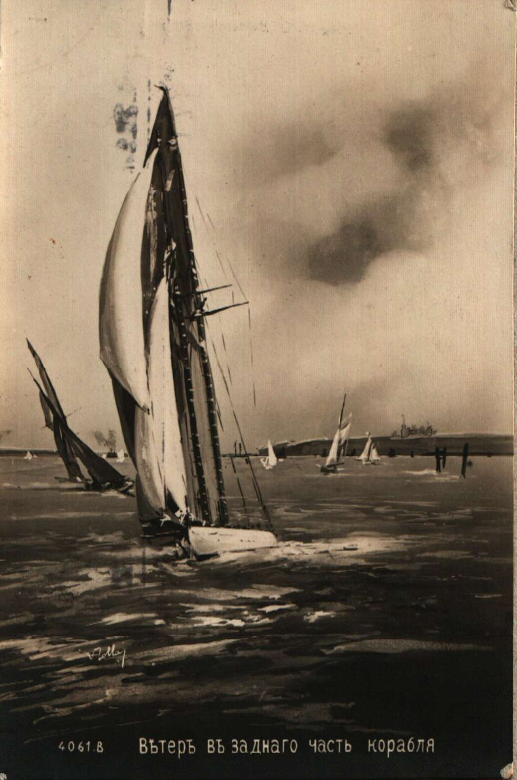 Postcard